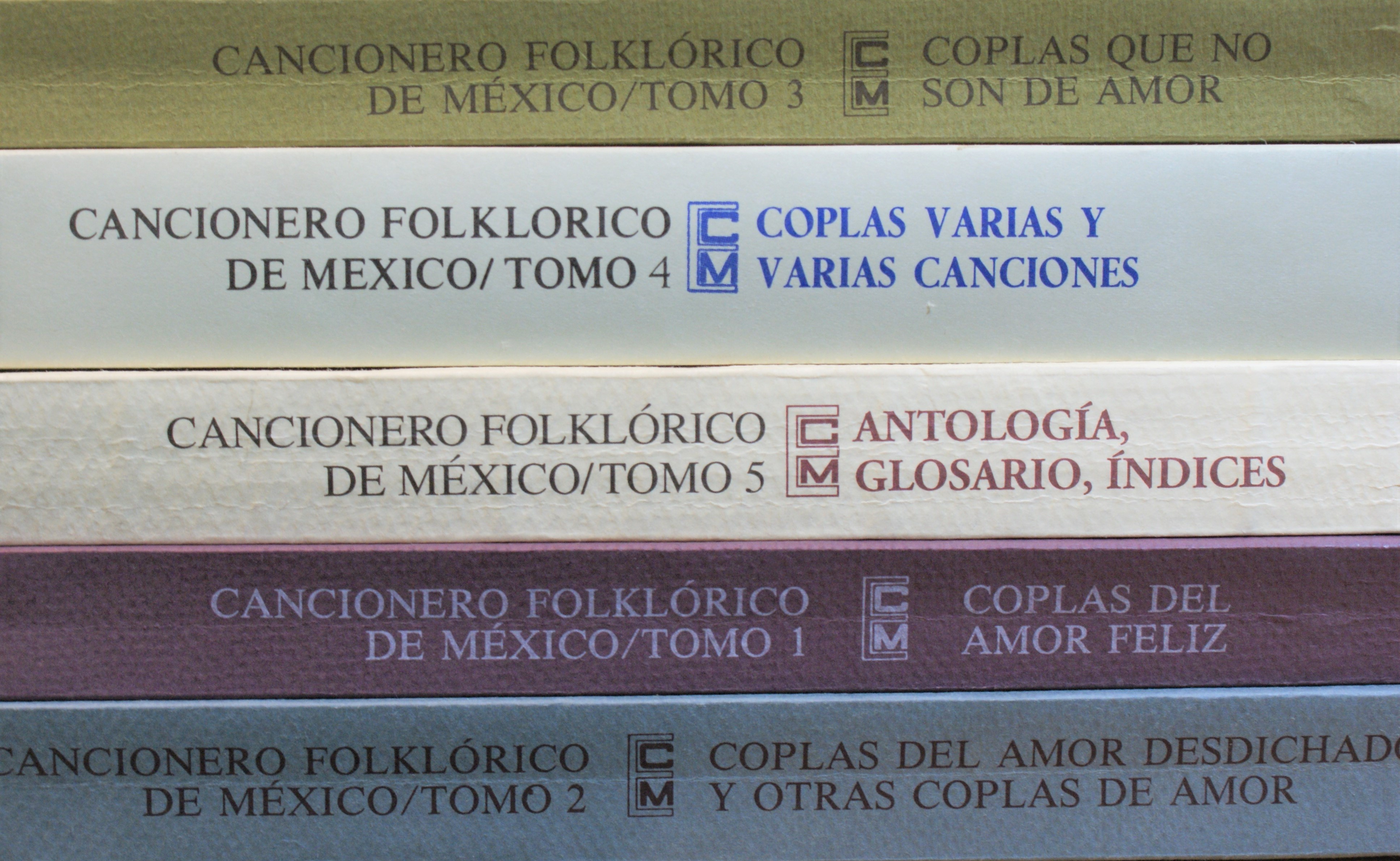 A sideview of the 5 volumes of the Cancionero folklórico de México, edited by Margit Frenk.